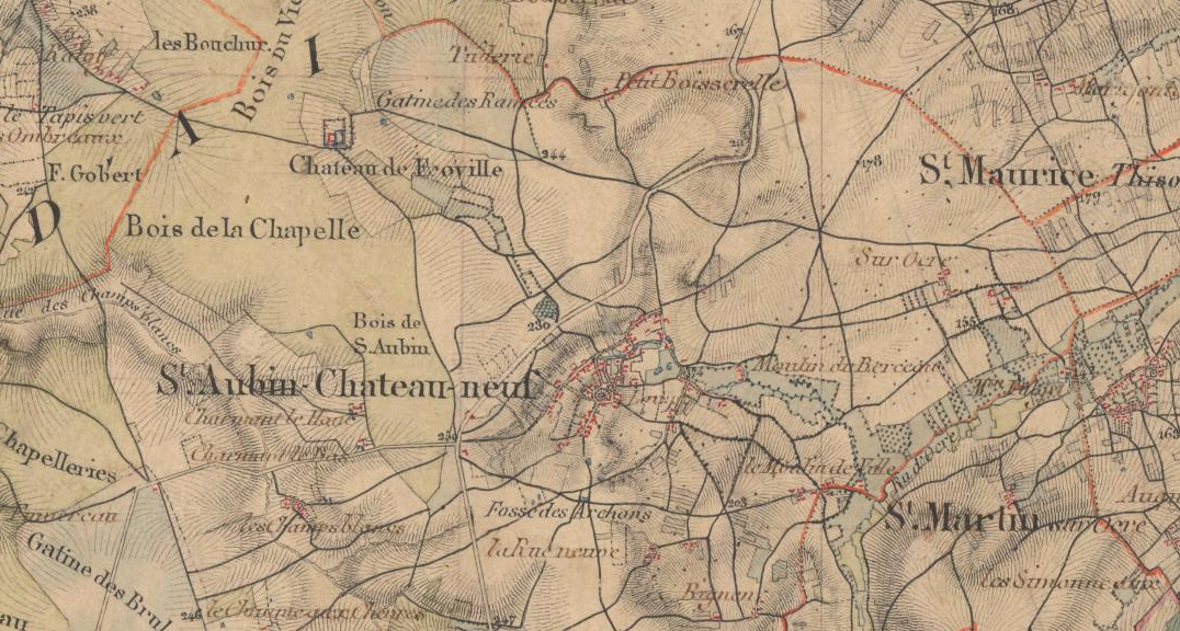 1832 carte d'état-major of Saint-Aubin-Chateau-Neuf and surroundings, in Yonne departement, Burgundy, France.